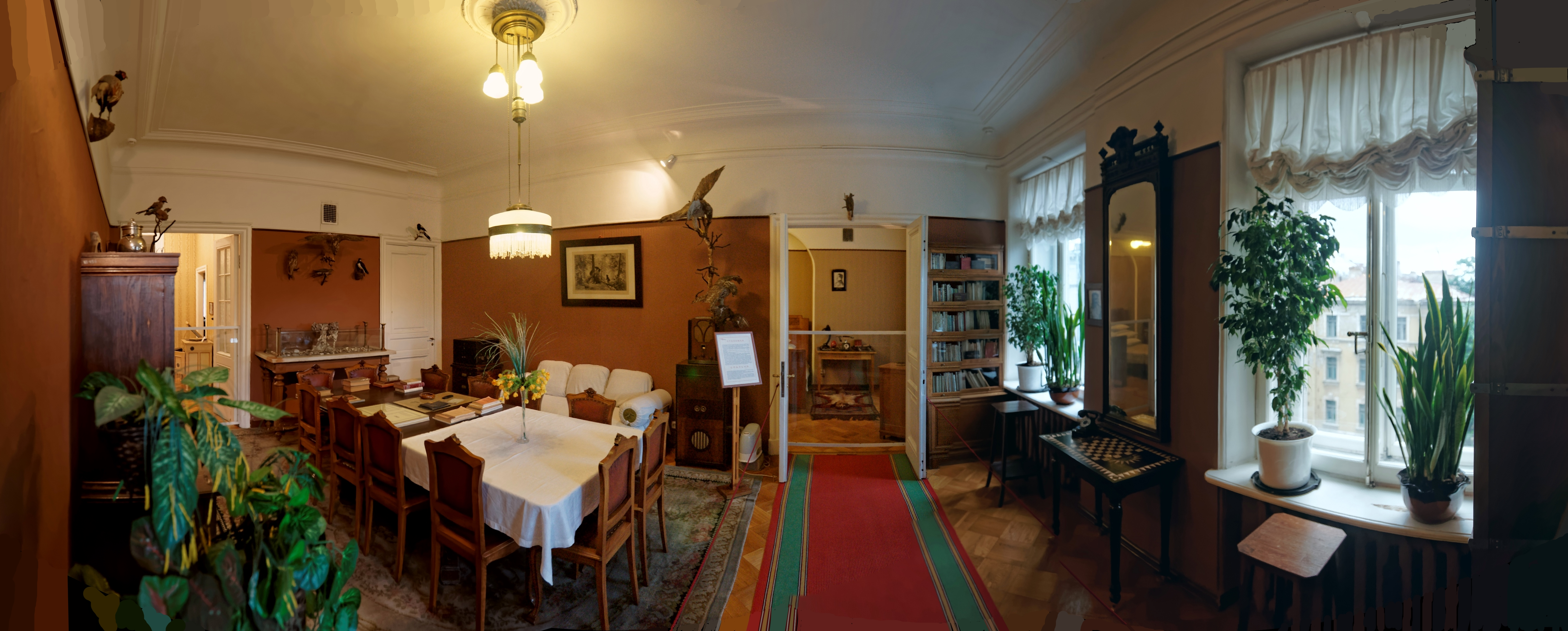 Санкт-Петербург / St Petersburg - Каменноостро́вский проспе́кт / Kamennoostrovsky Prospekt 26-28 - Museum Apartment S.M.Kirov (Серге́й Миро́нович Ки́ров)